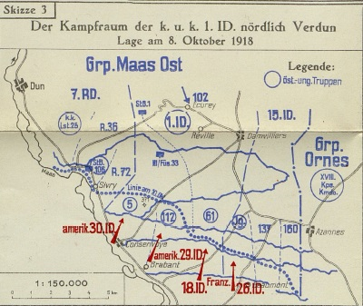 The operational area of the k.u.k. 1th Infantry Division north of Verdun on 8 October 1918.